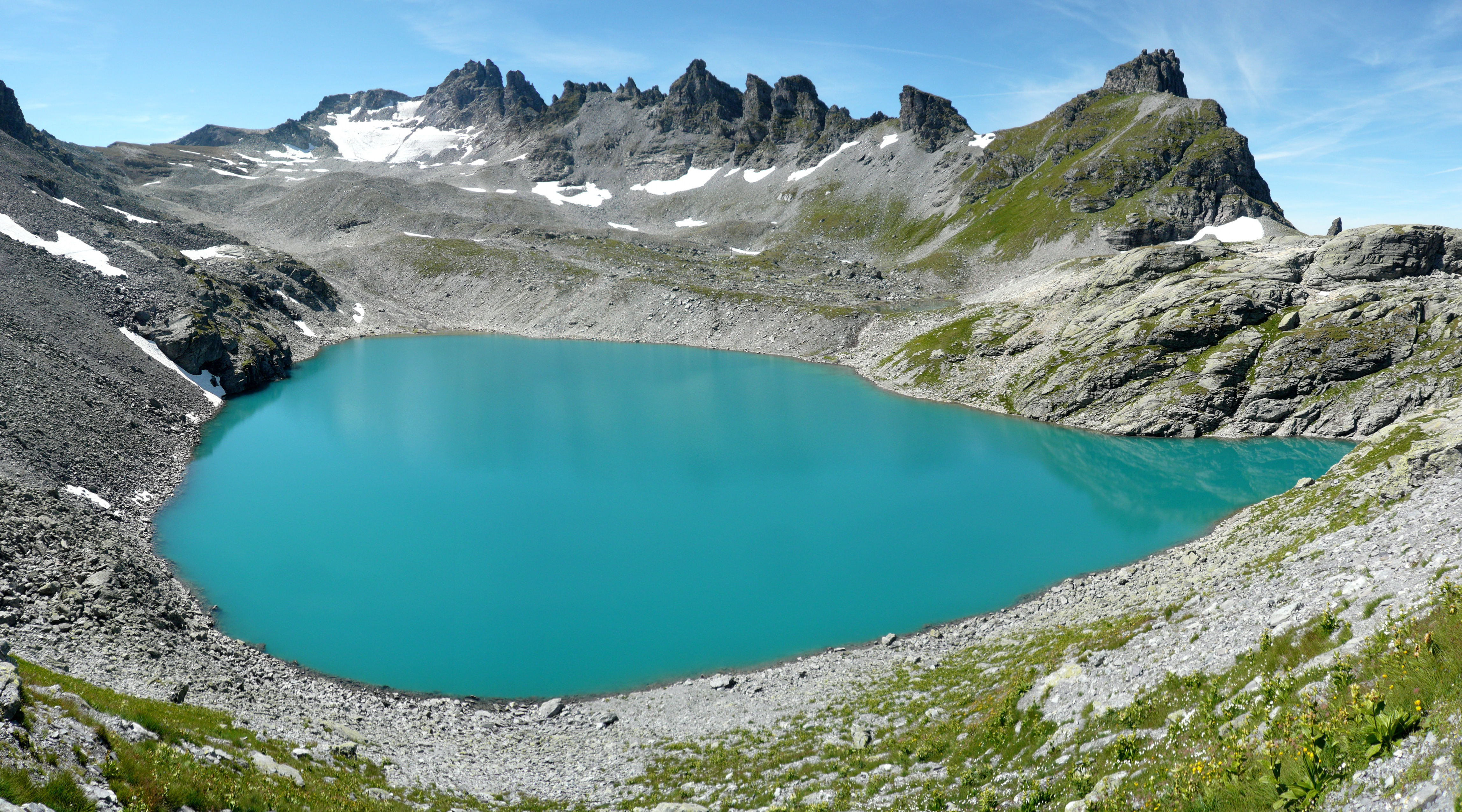 Lake in Switzerland